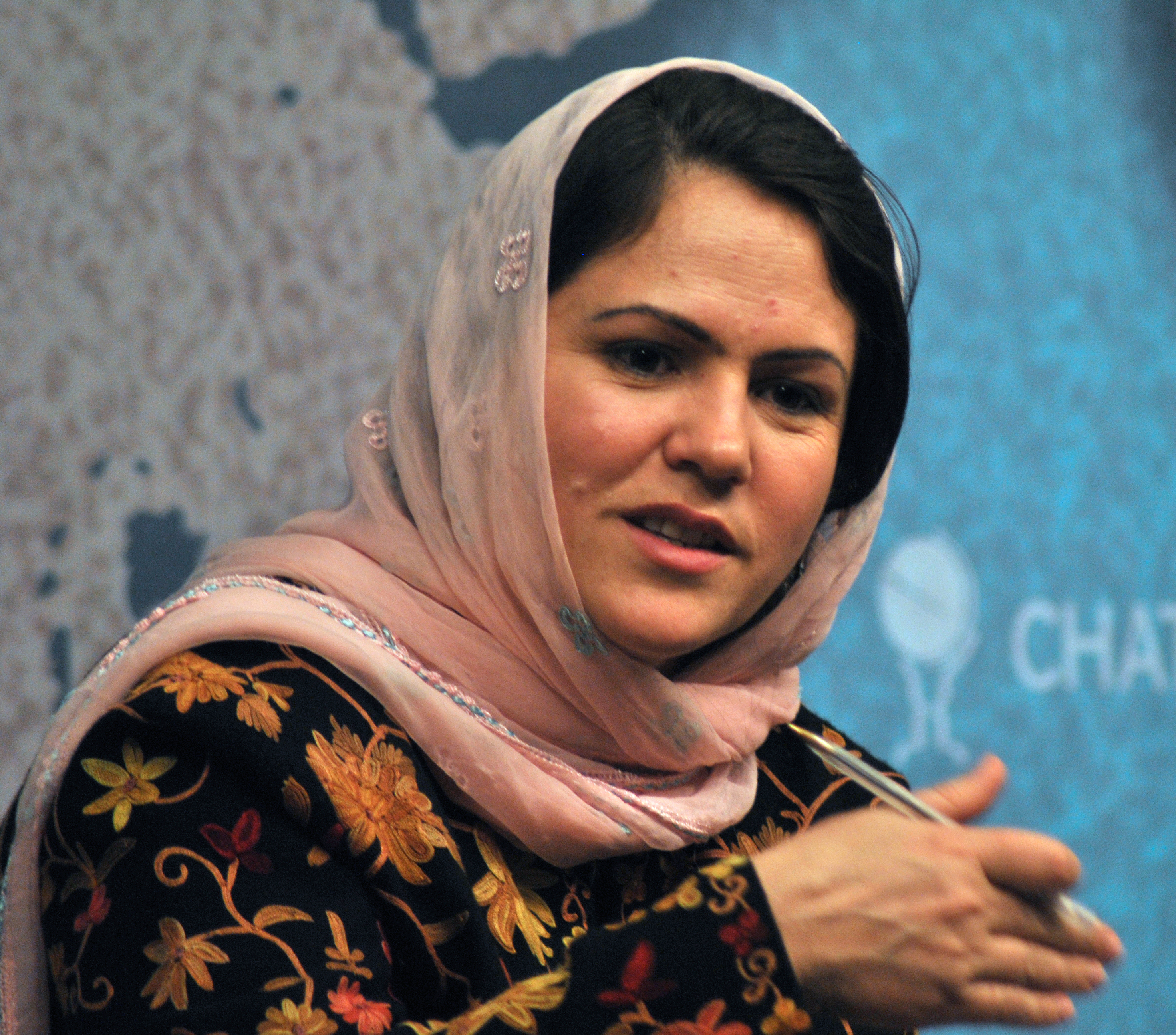 How Will the Withdrawal of International Forces Affect Afghanistan? 17 February 2012